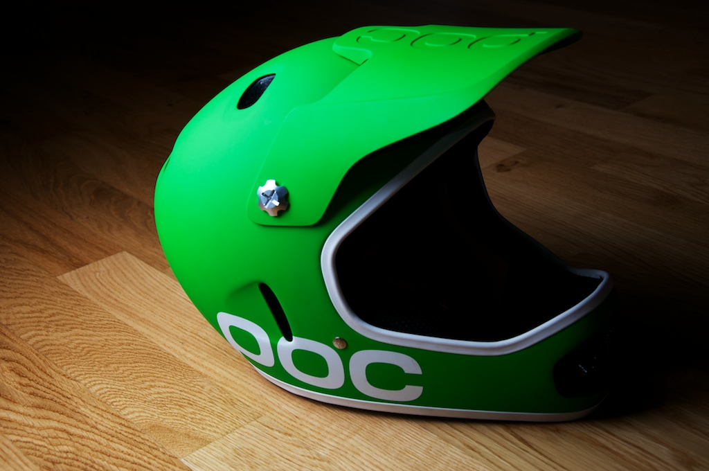 A high resolution image of a green POC Sports skiing helmet.